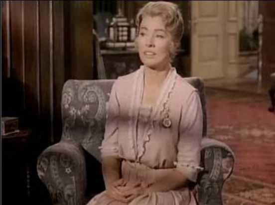 Cropped screenshot of Greer Garson from the trailer for the film Sunrise at Campobello